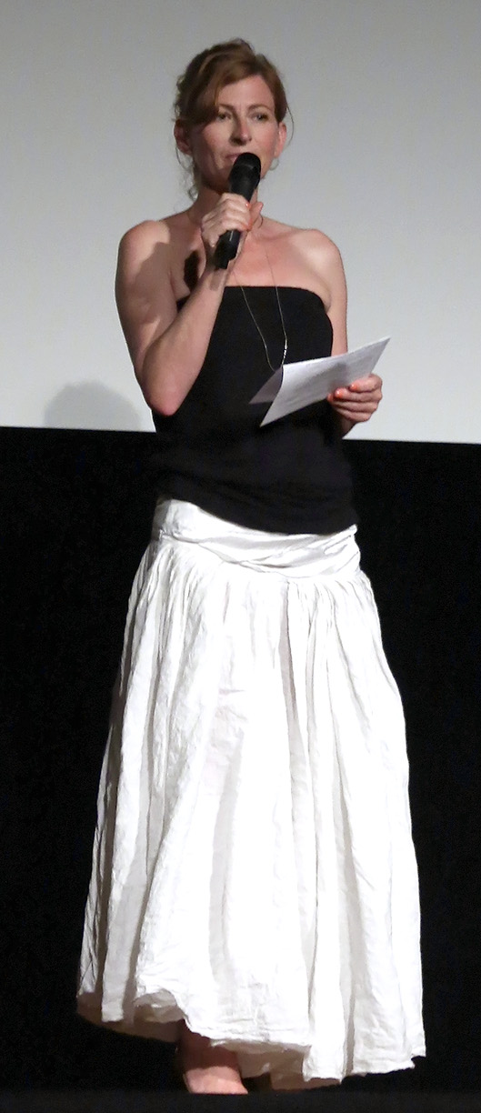 Actress Tatjana Alexander hosting the final evening of the film festival Vienna Independent Shorts 2014 at Stadtkino at Vienna Künstlerhaus (Vienna, Austria).